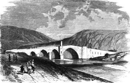 "Le Pont Rouge sur Le Khram, route d'Erivan", from Lettres sur le Caucase et la Crimée, by Florent A. Gille (Gide, 1859)